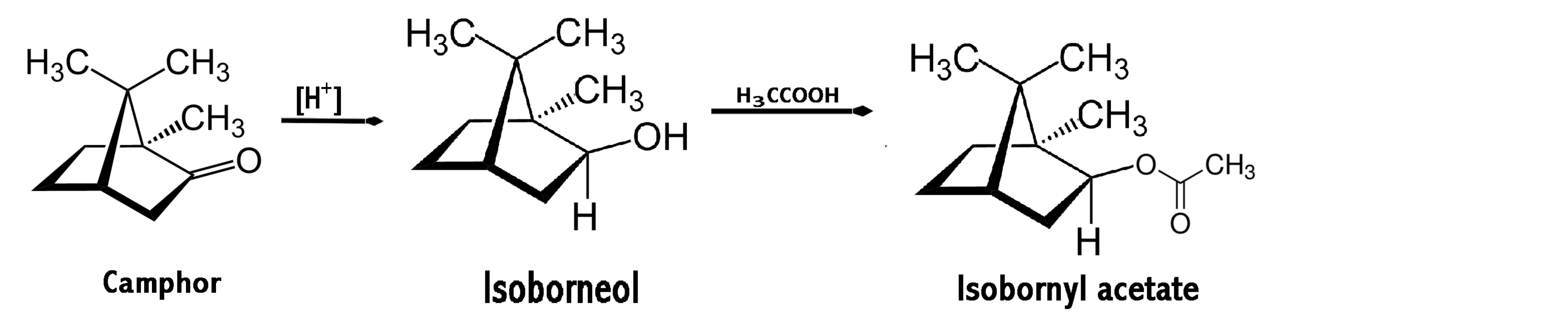 Isobornyl ester from acetic acid